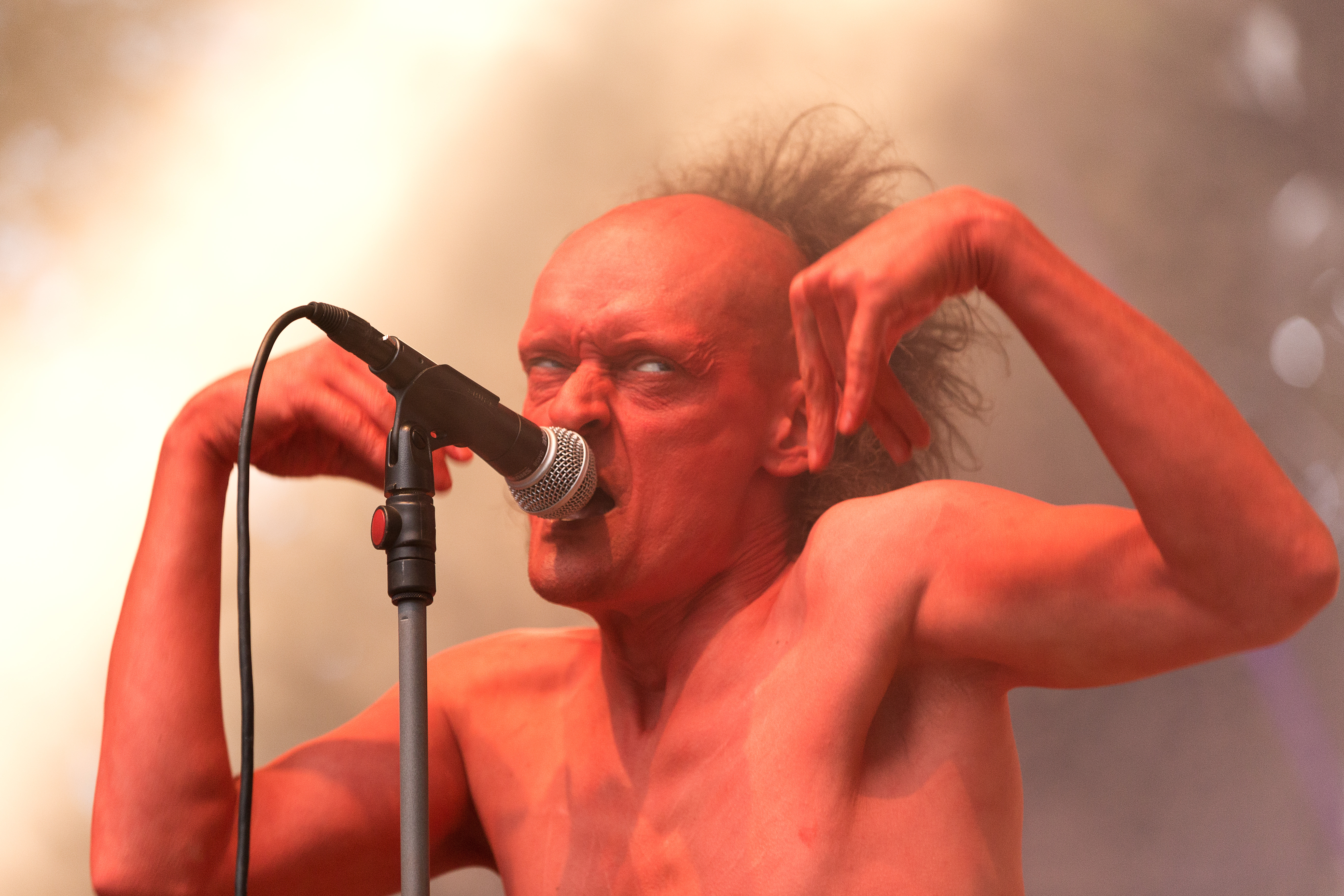 The German electro band Das Ich at the Nocturnal Culture Night 10 2015 in Deutzen/Germany.